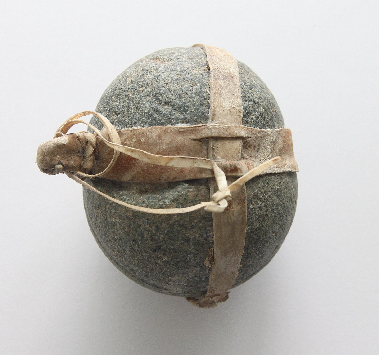 A heavy and large bola from South America probably Argentinia